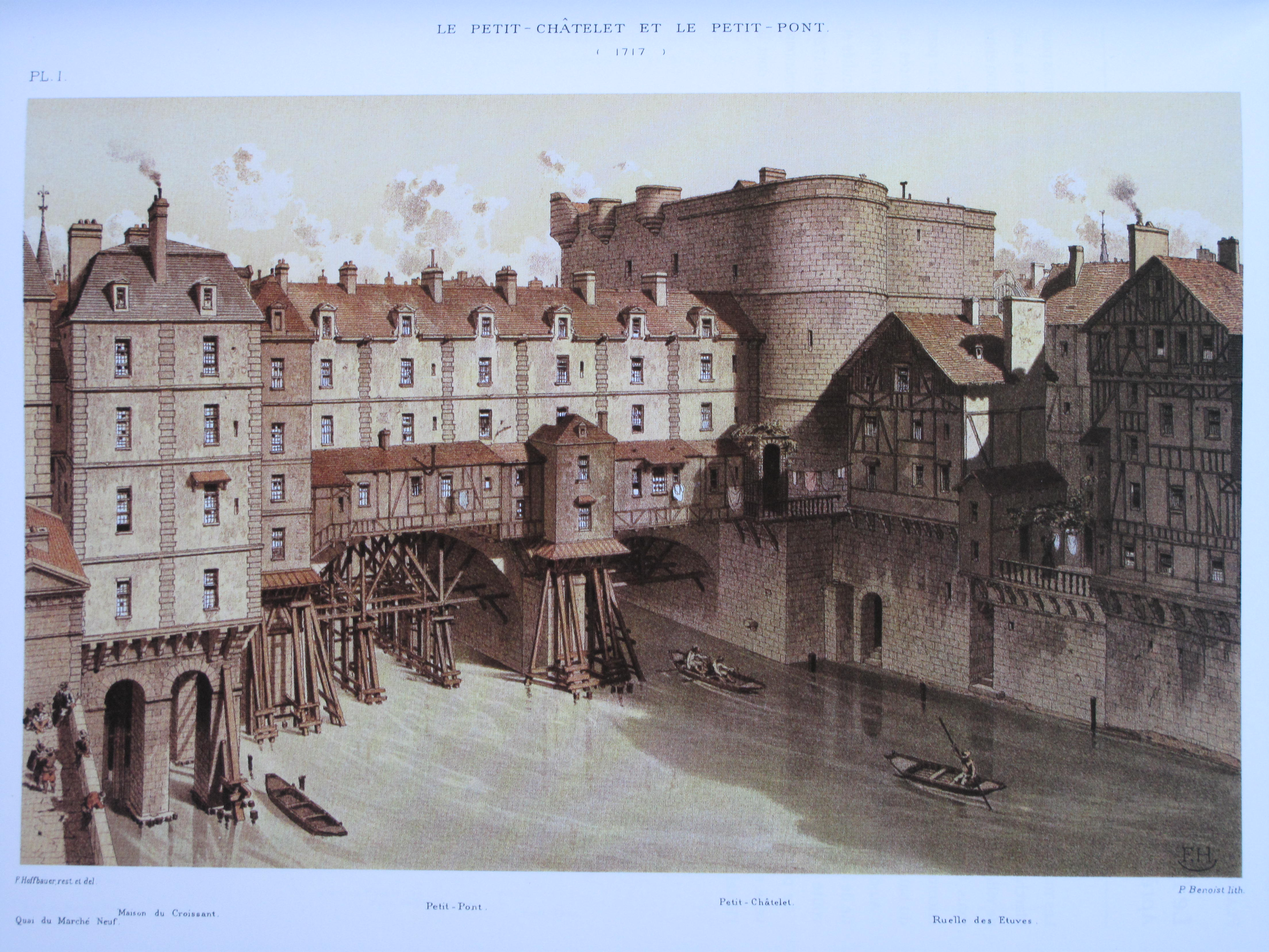 The Petit-Pont (=Small bridge) between the île de la Cité and the left bank of Seine river in Paris (France) and the fortress of the Petit-Châtelet (=small castle), in 1717.